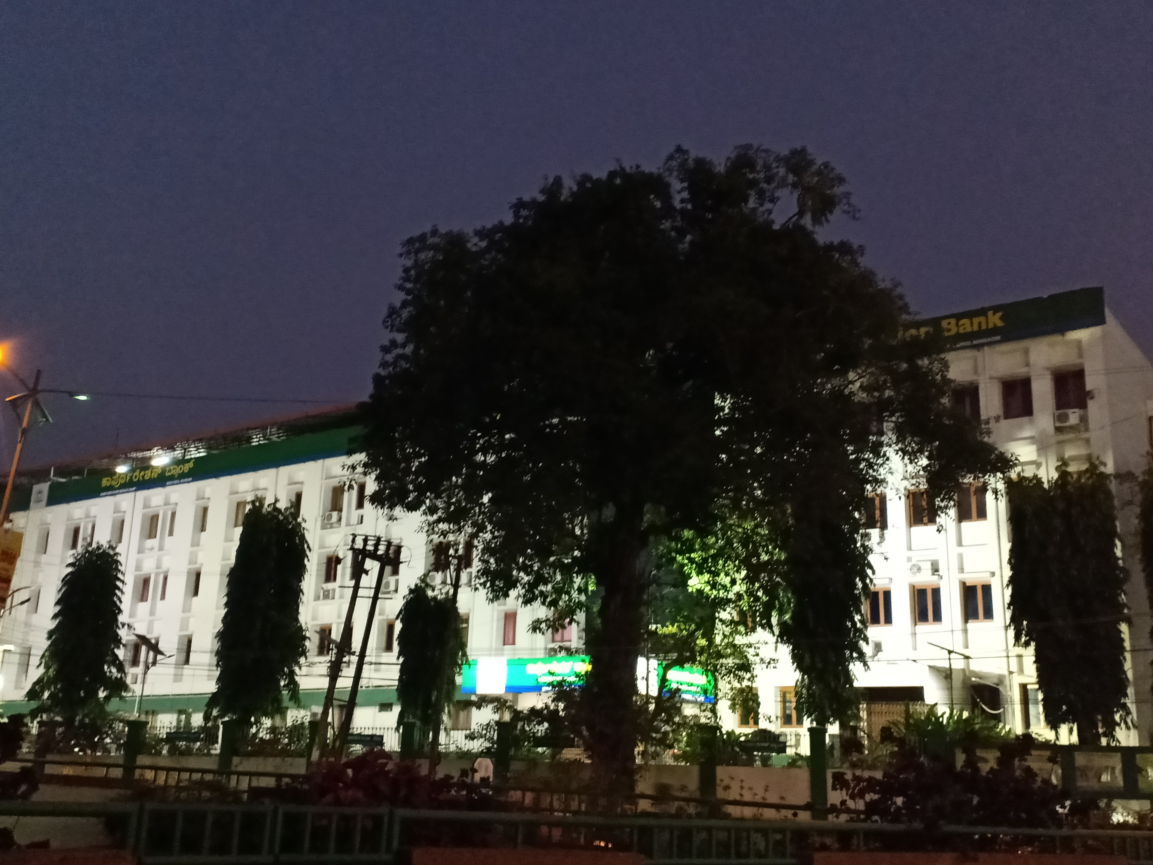 Corporation Bank Head Office in Mangalore